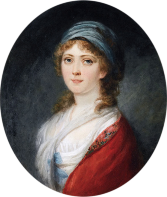 Countess Antonia Cäcilie Snarska oil on canvas 65 x 54.5 cm 19th century